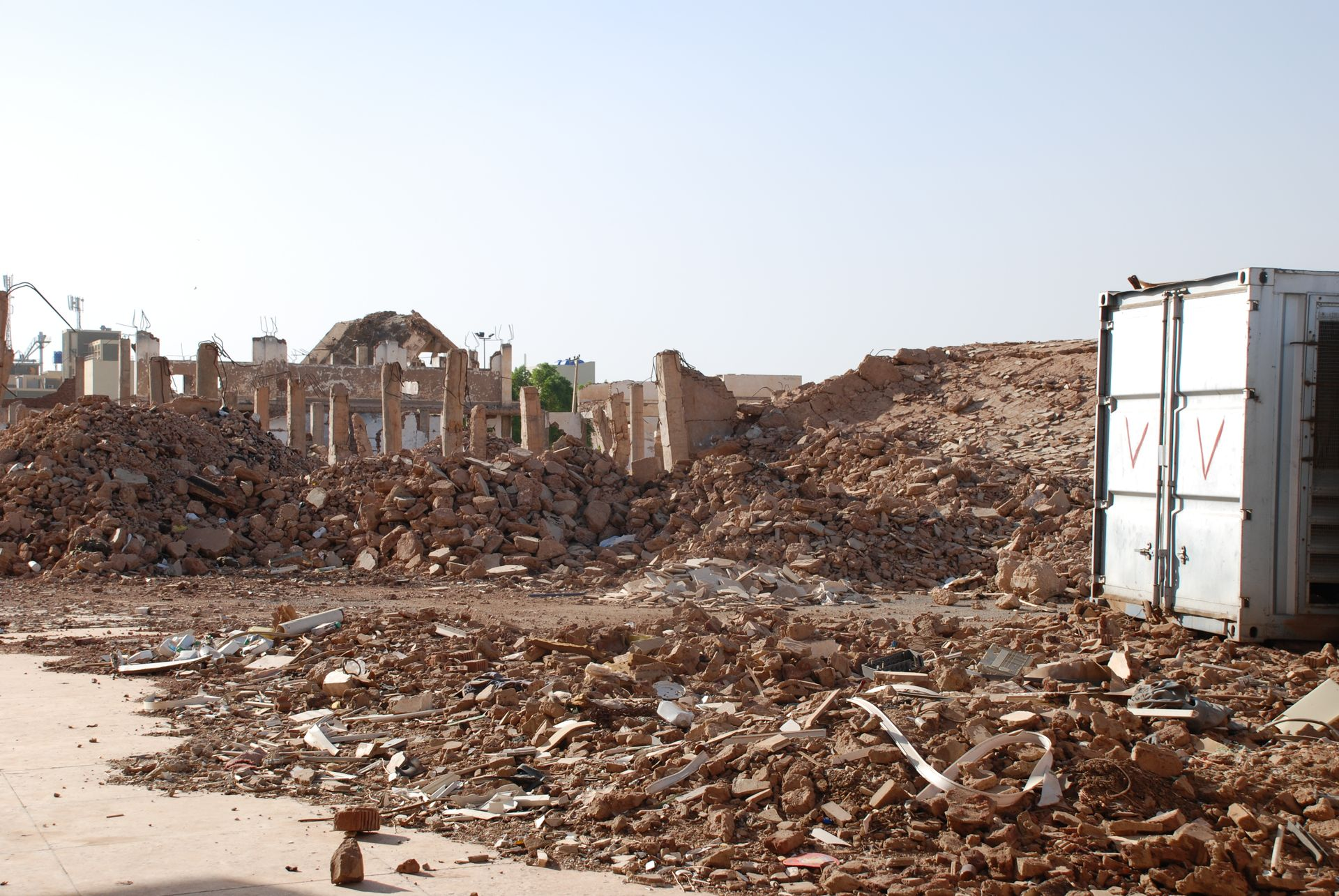 Al-Shifa pharmaceutical factory, Khartoum. 10 years after